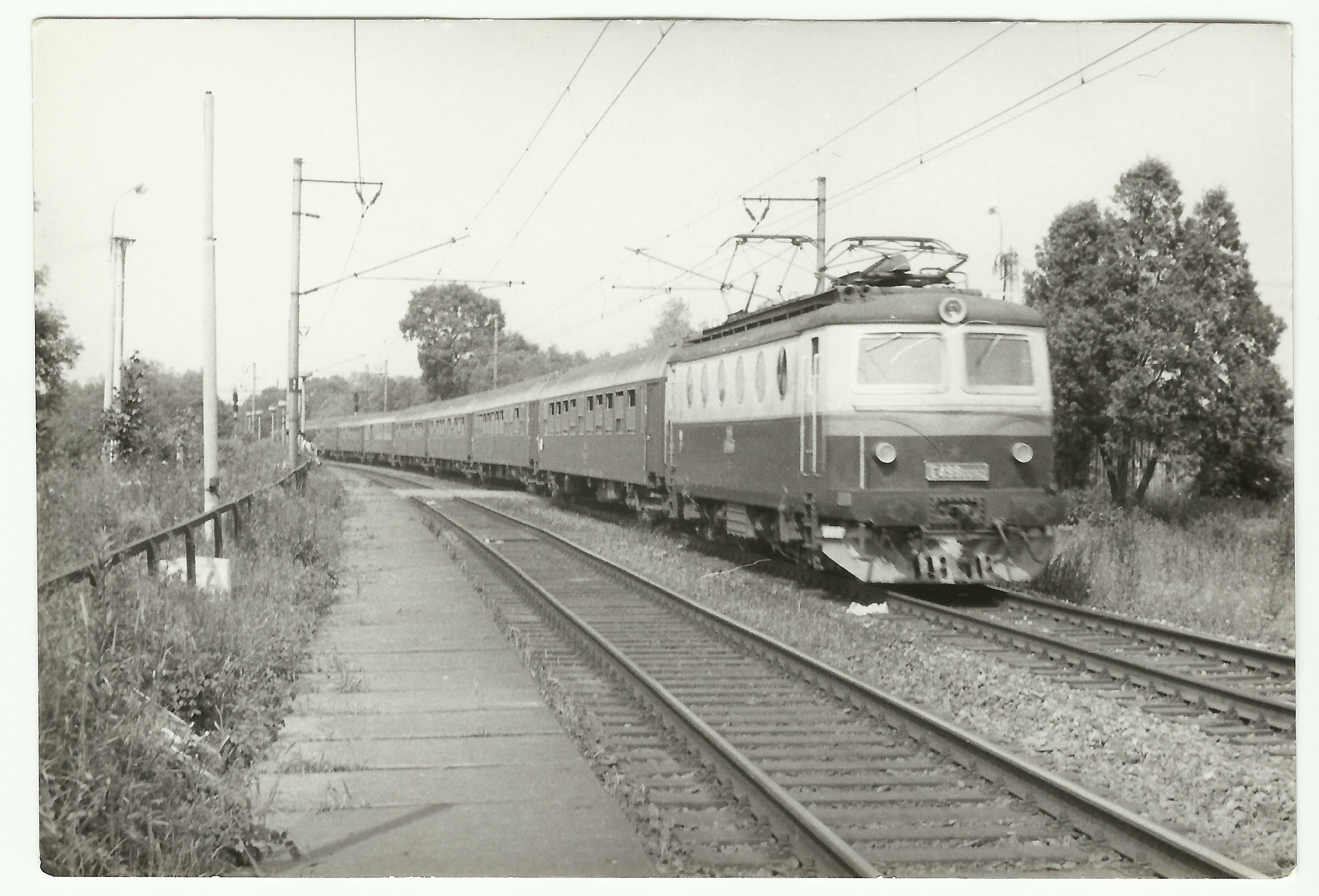 E 499 0032, Polanka n. O. 1989 (Czechoslovakia).